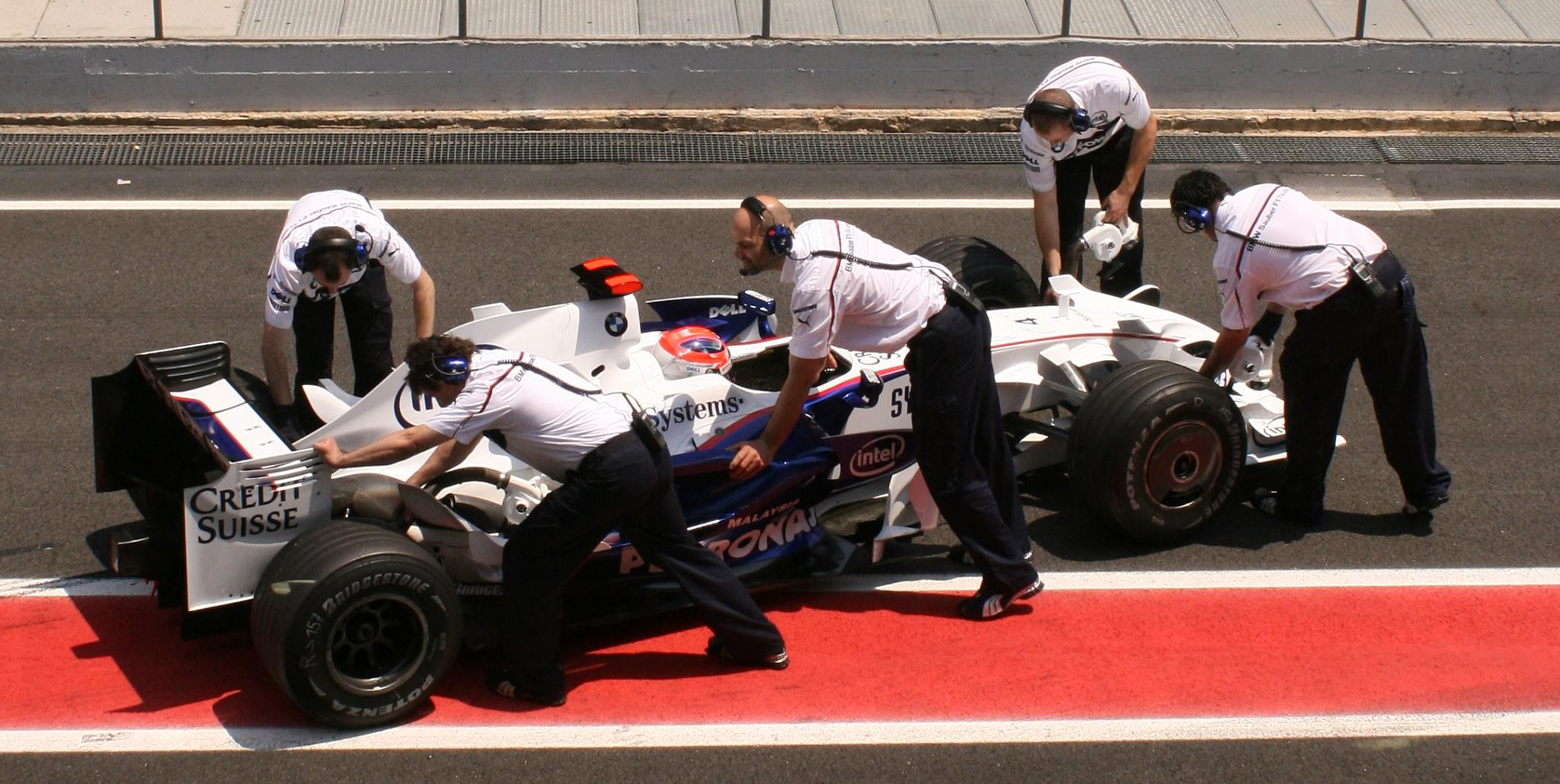 BMW Sauber F1 Team, taken in Montmelo, Catalogna, Spain